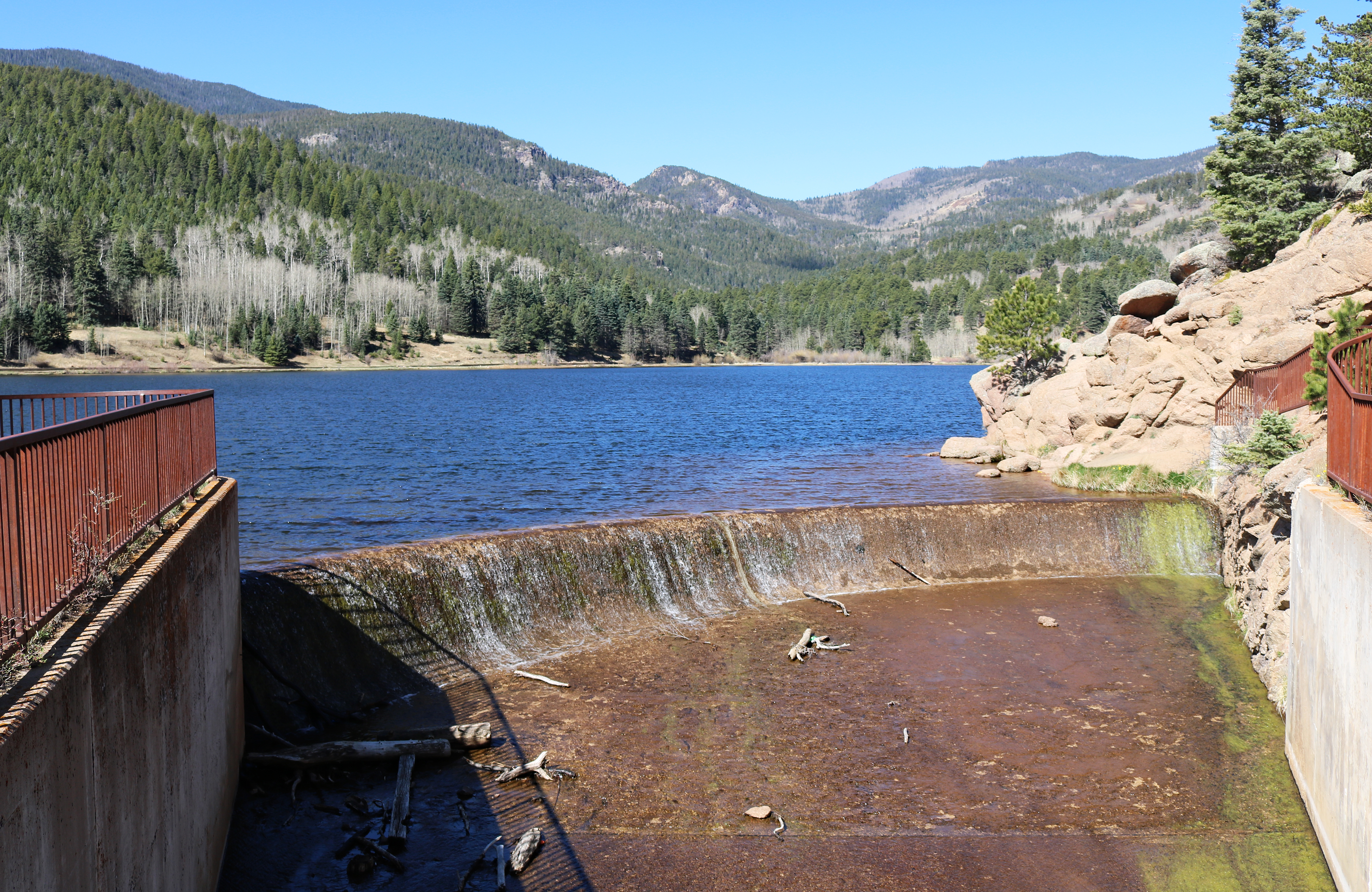 A view of Lake Isabel, in Pueblo and Custer counties, in Colorado. The view is to the west, from a bridge over the spillway. The lake, which is actually a reservoir, is in the Wet Mountains.